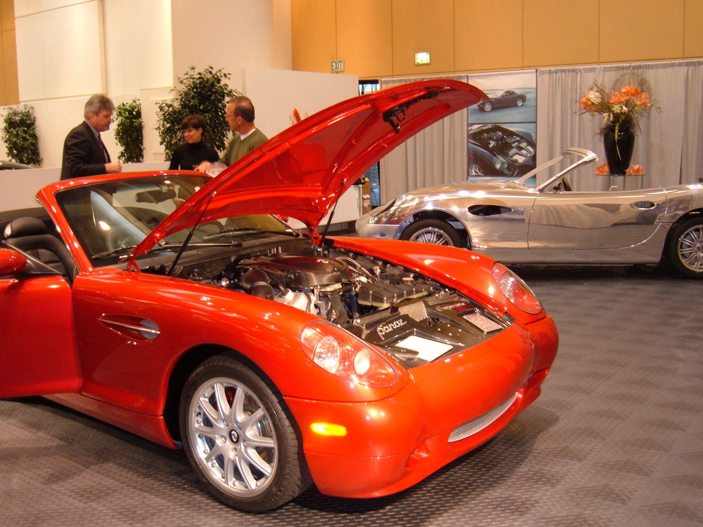 A 2005 Panoz Esperante at the 2004 San Francisco International Auto Show.